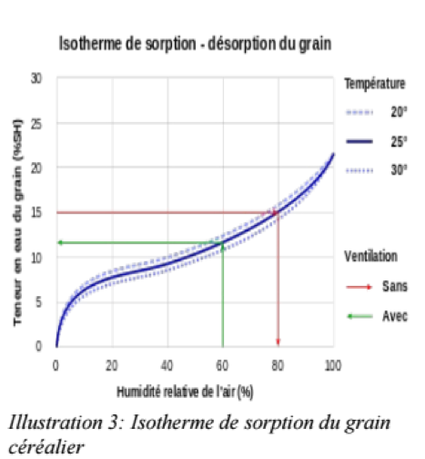 Isotherm of a cereal